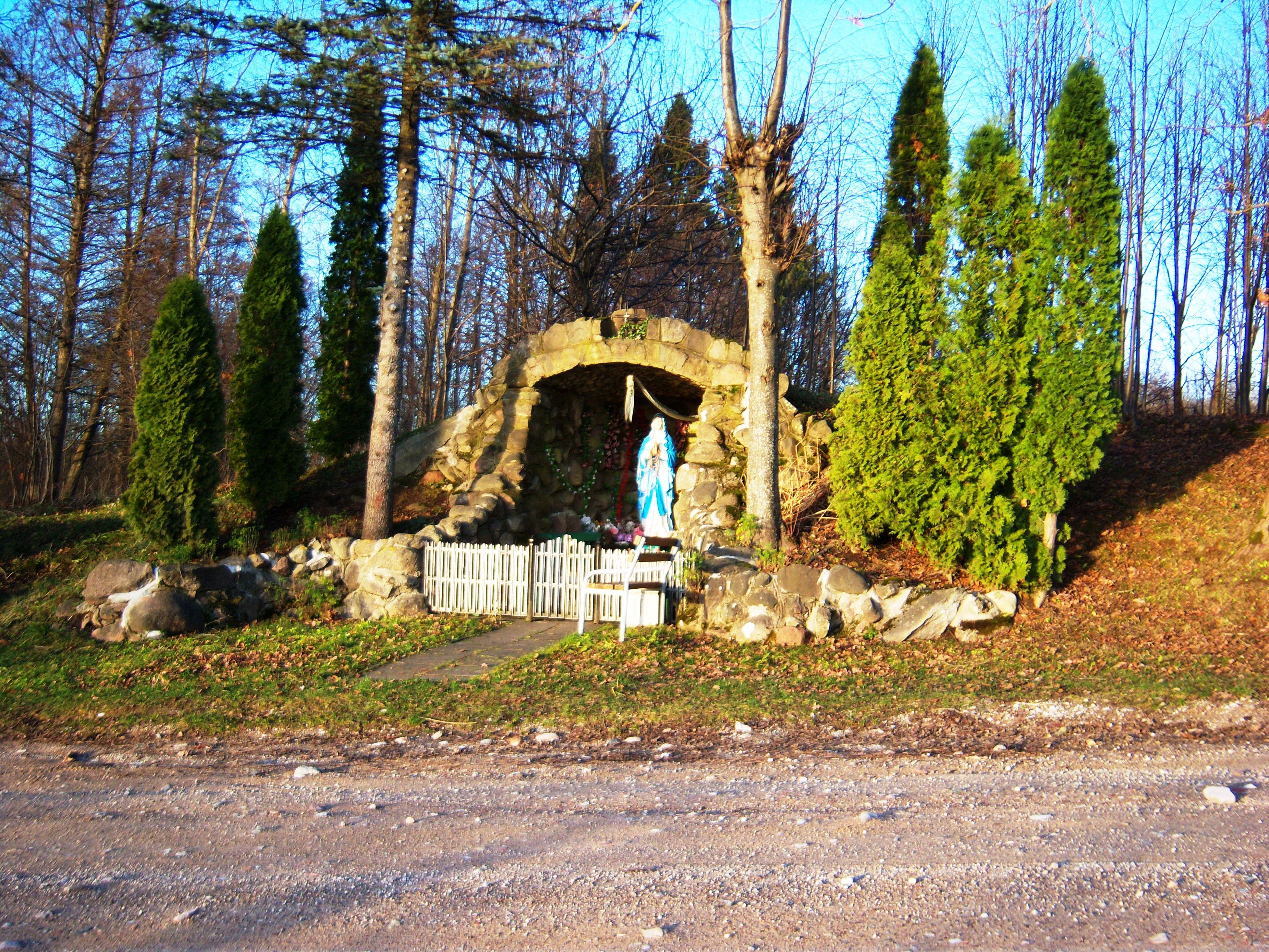 Lourdes in Užvėnai, Klaipėda District, Lithuania